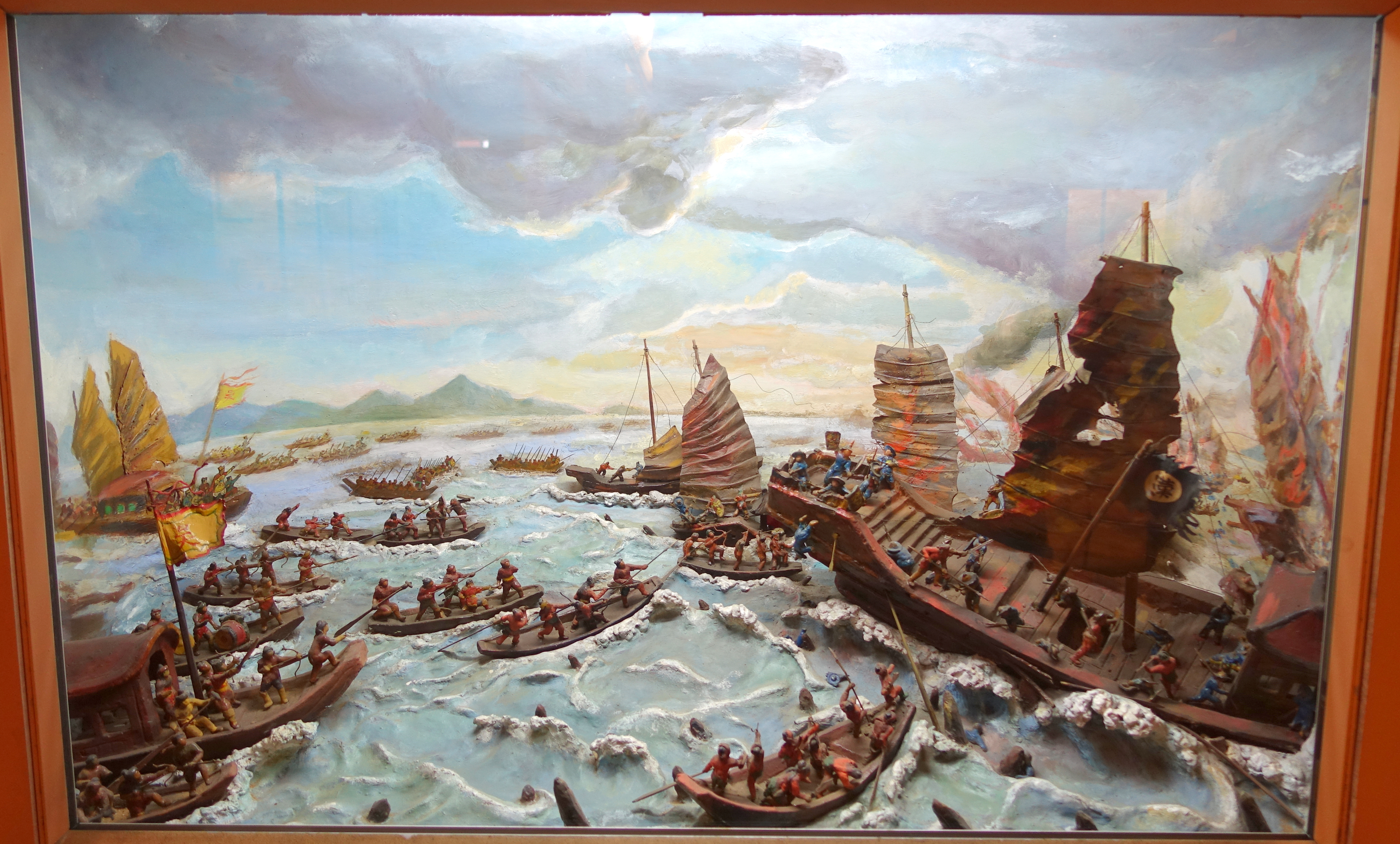 Exhibit in the National Museum of Vietnamese History, Hanoi, Vietnam. This artwork is old enough so that it is in the public domain.